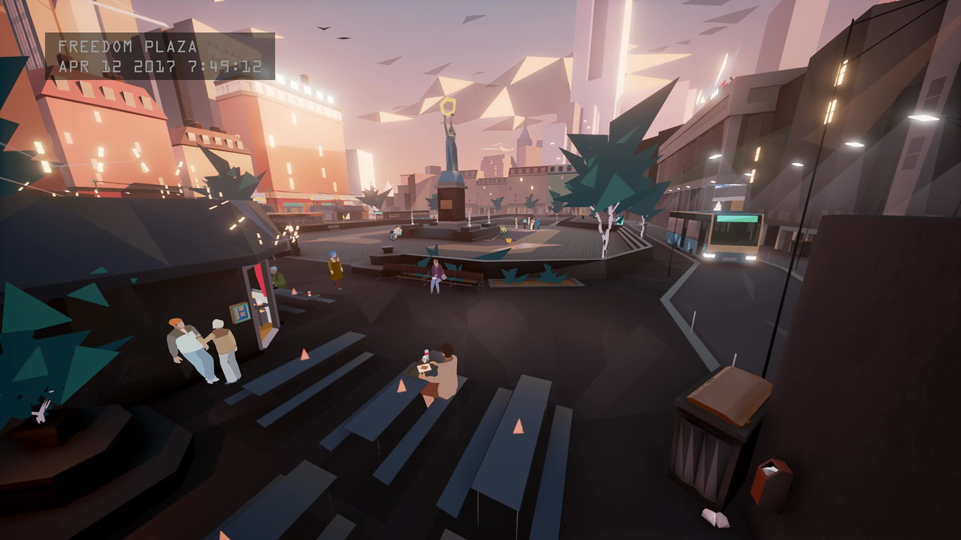 Screenshot of Orwell